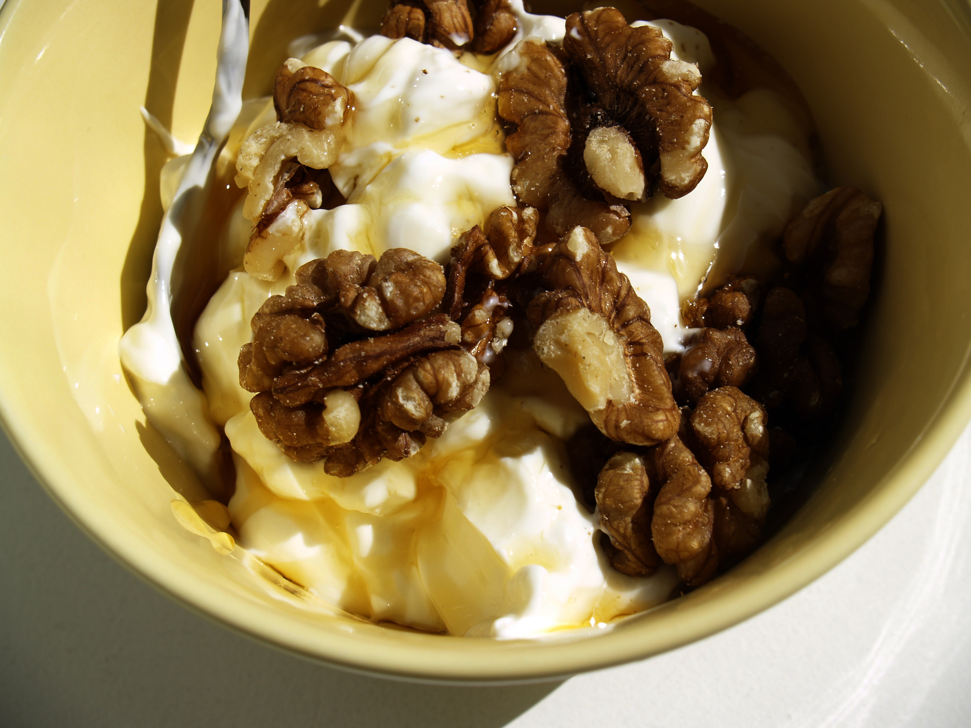 Yiaourti me Meli